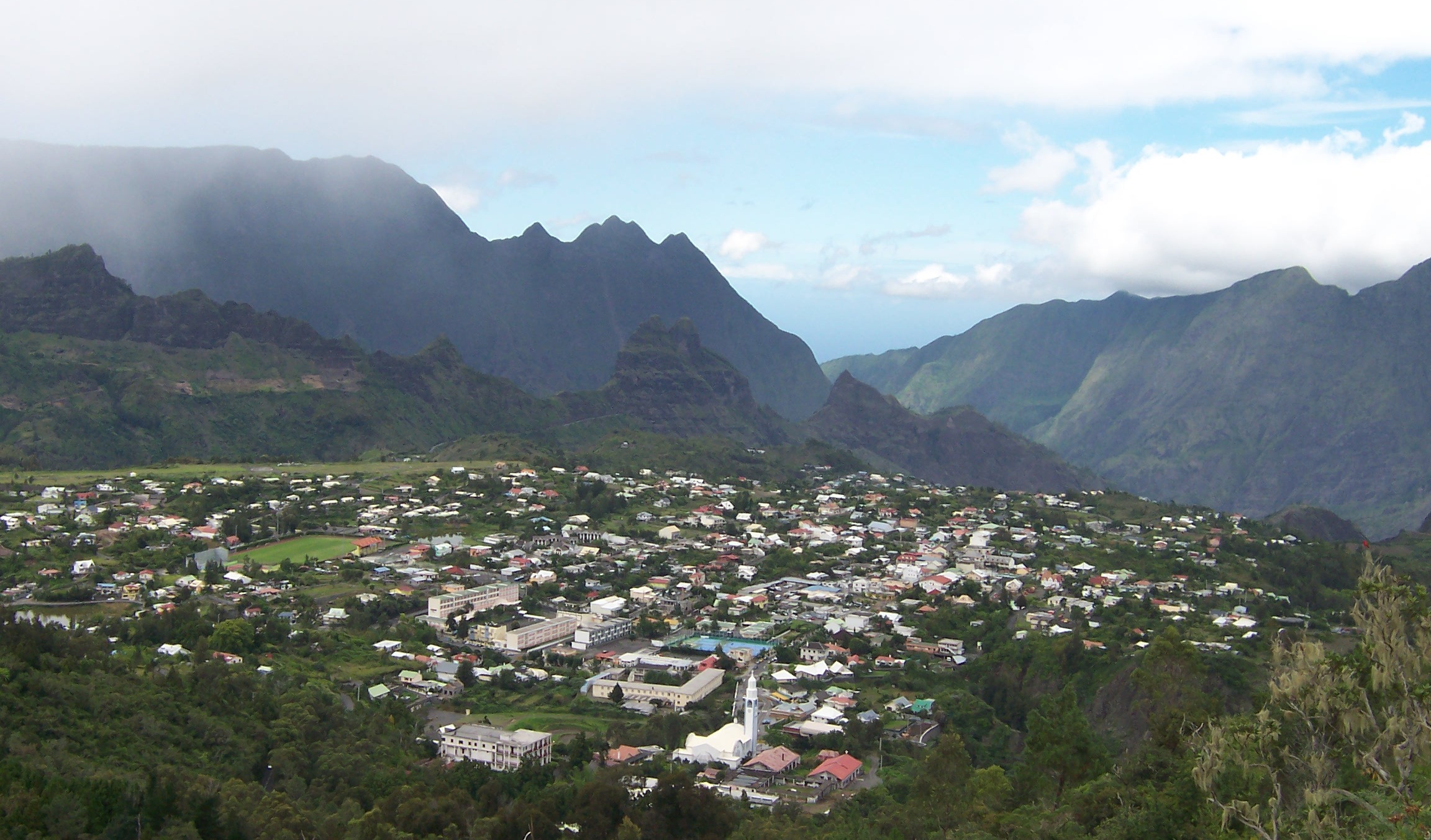 Town of Cilaos (Réunion island) Photo: B.Navez - 1 mars 2006